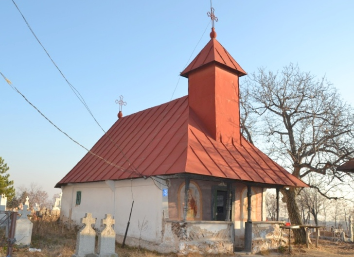 Wooden church in Păunești, Mehedinți county, Romania